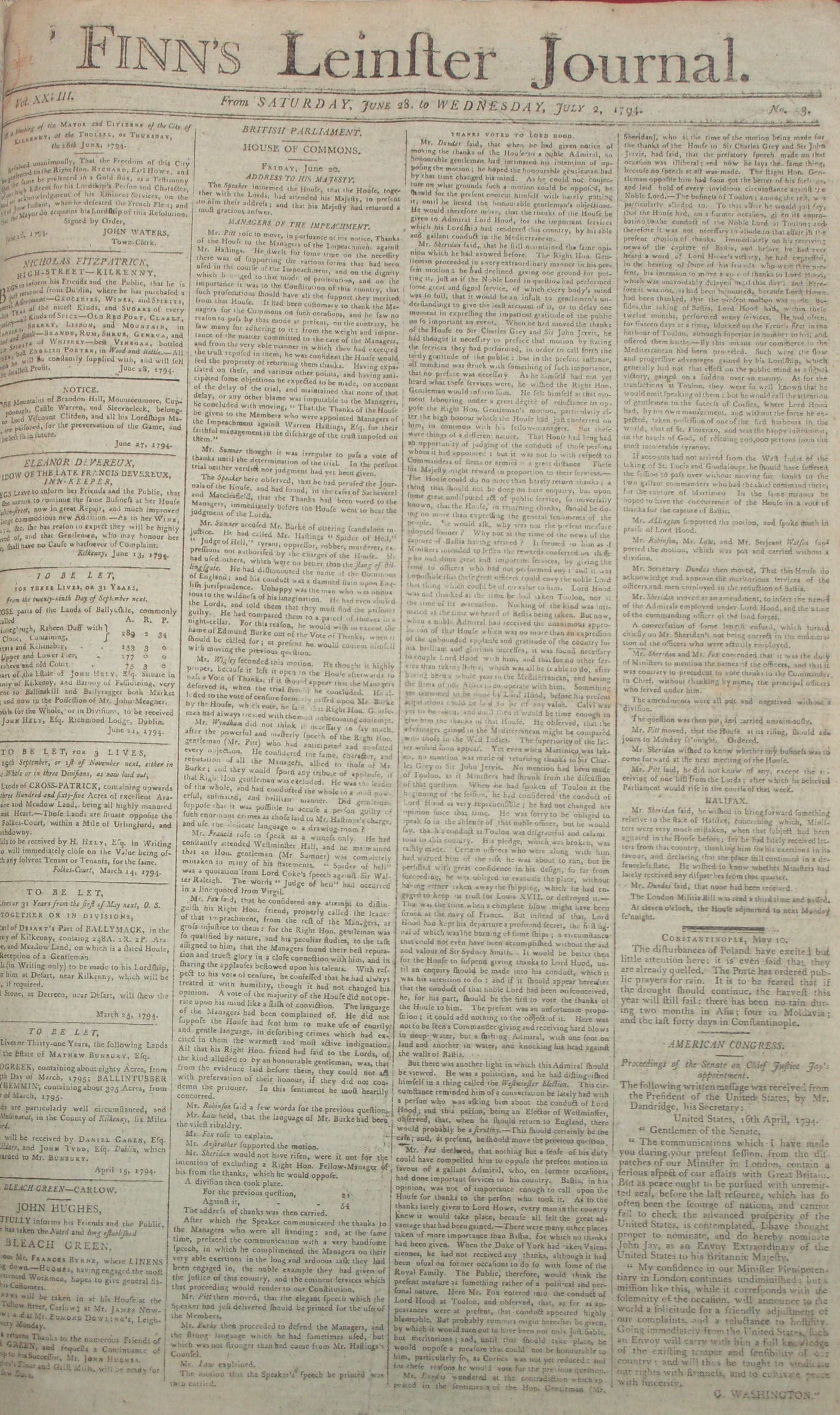 Front cover of 1794 issue of Finn's Leinster Journal